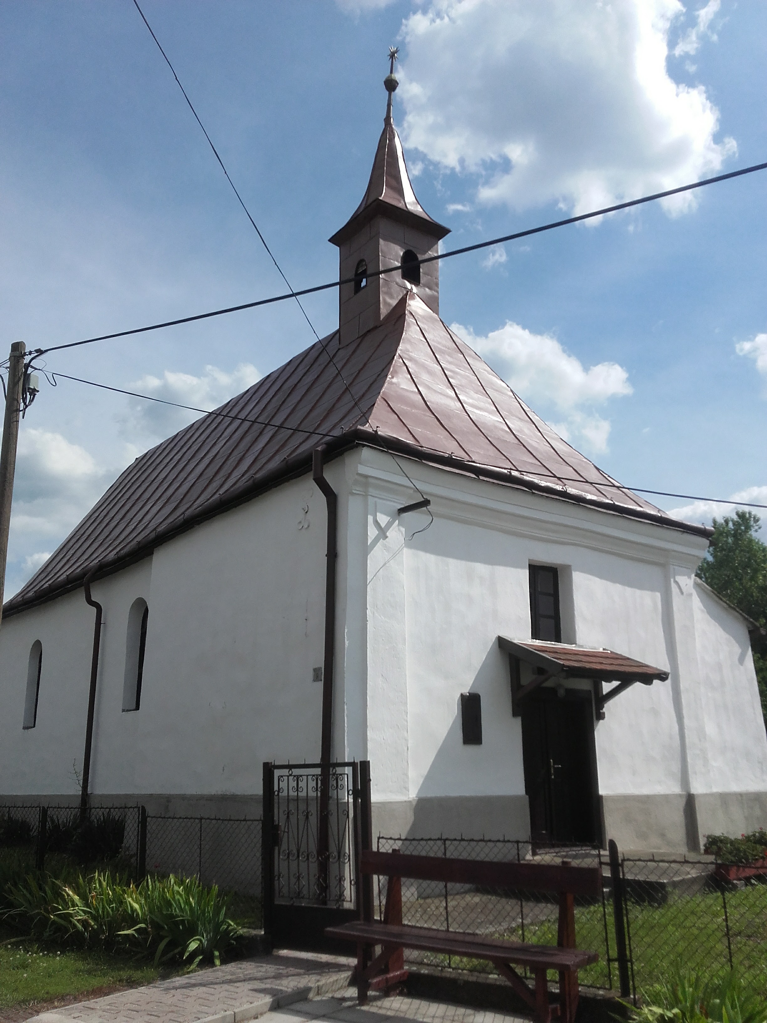 The Gothic Reformed church of Abaújalpár, Hungary